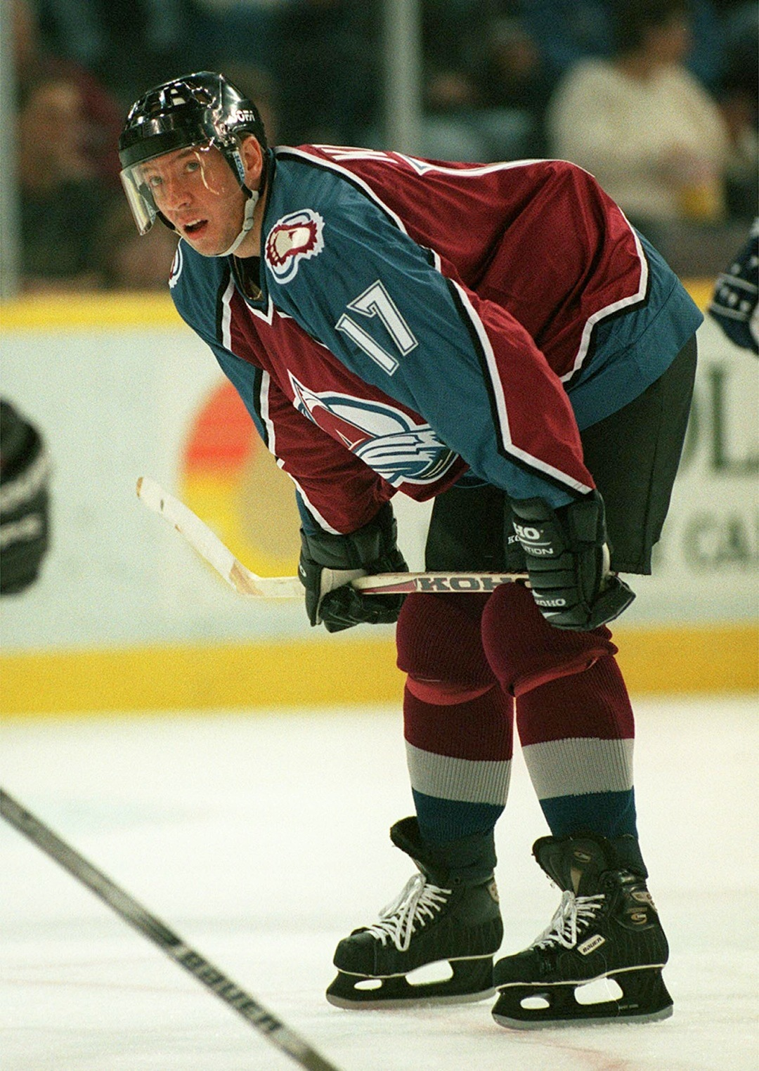 Jari Kurri in a Cololado Avalanche jersey in his last NHL season.